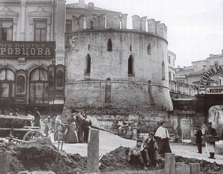 Deaf Bird tower near the Tretyakov passage.